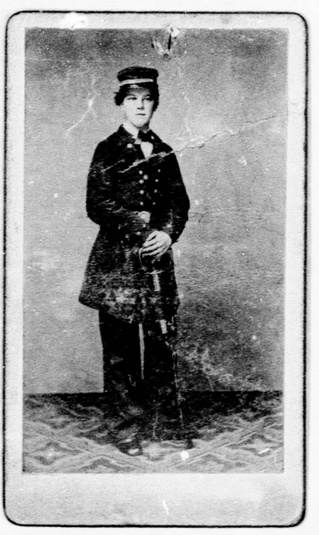 James Henry Carpenter about 1861 or 1862, full image from pension file.